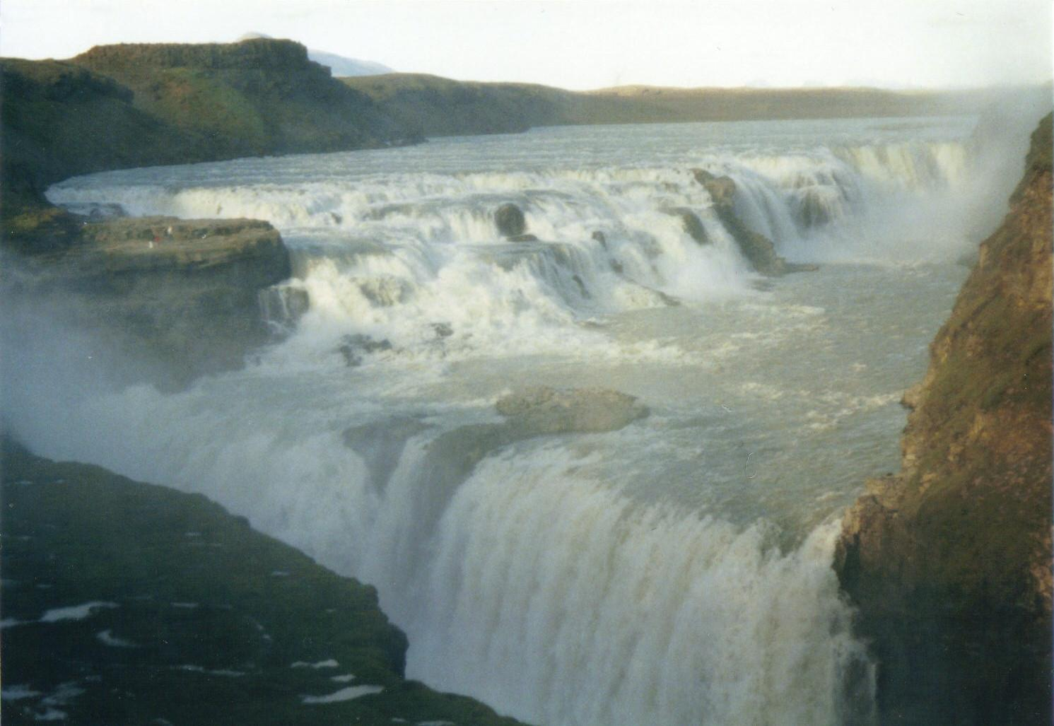 The waterfall Gullfoss in Iceland.